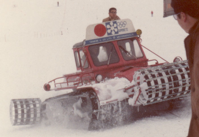 One of a fleet of Snow Tracs and Snow Masters shipped from Sweden to Japan for use during the 1972 Olympic Games in Sapporo, Japan as ski slope groomers. This is a short bodied Snow Master.